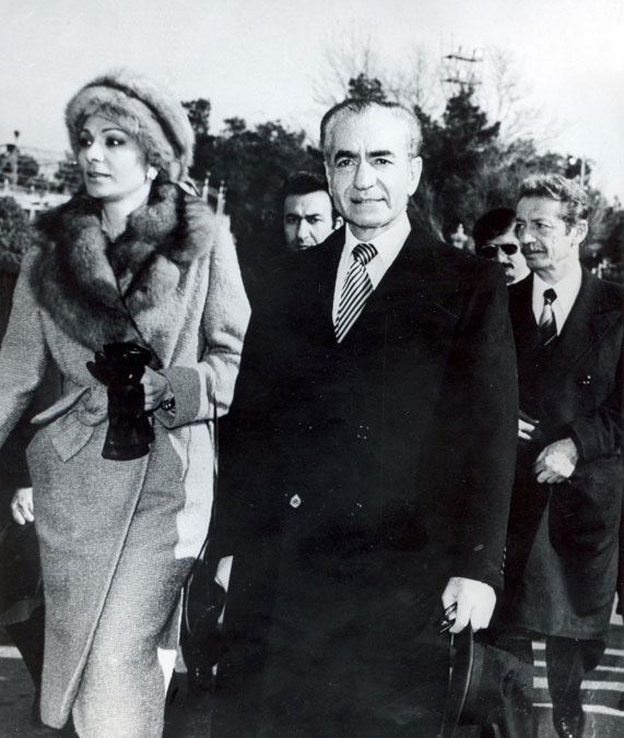 Shah and Shahbanu leaving Iran, Mehrabad International Airport - 16 January 1979